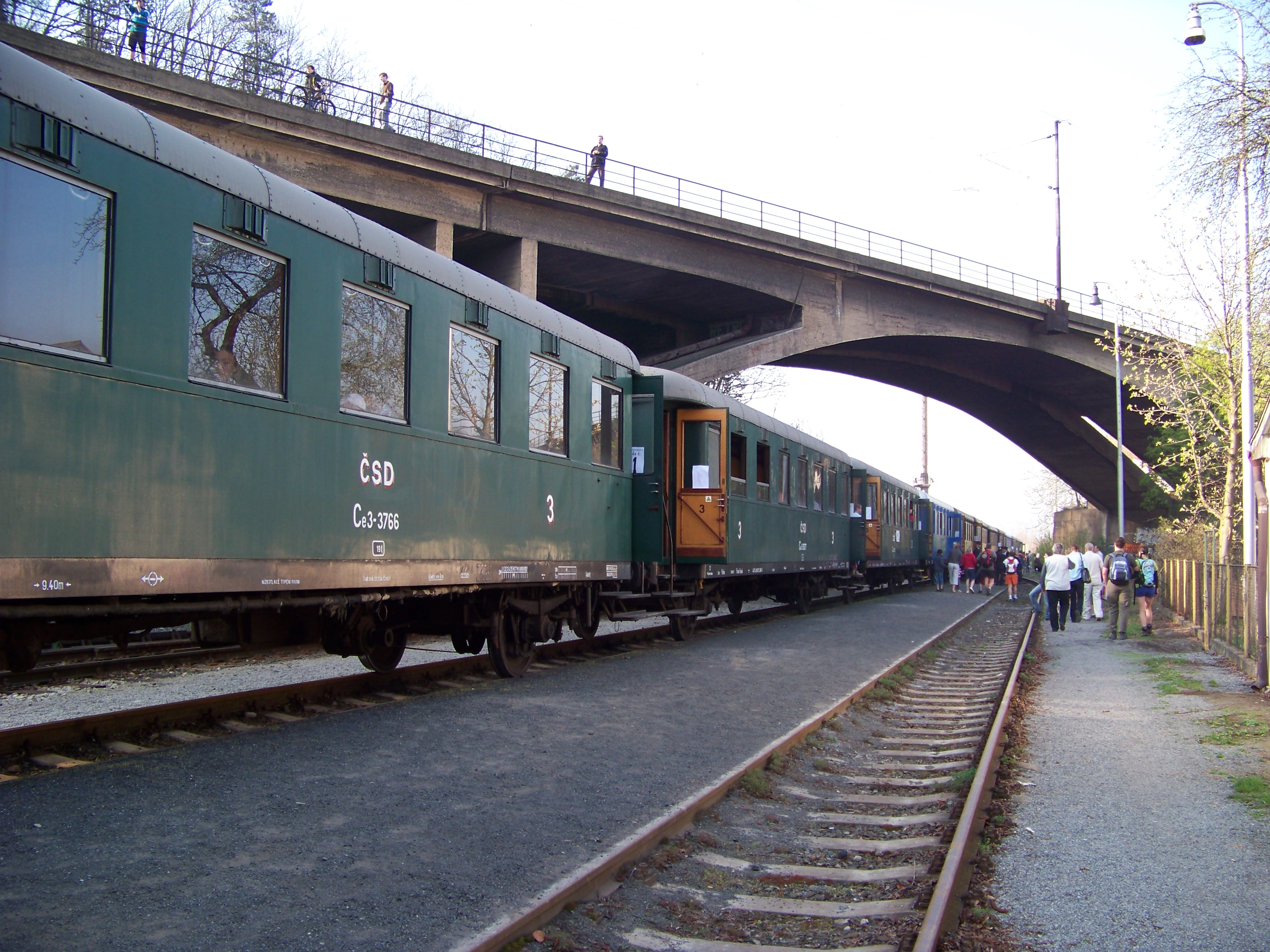 Braník, Prague, the Czech Republic. A historical train.